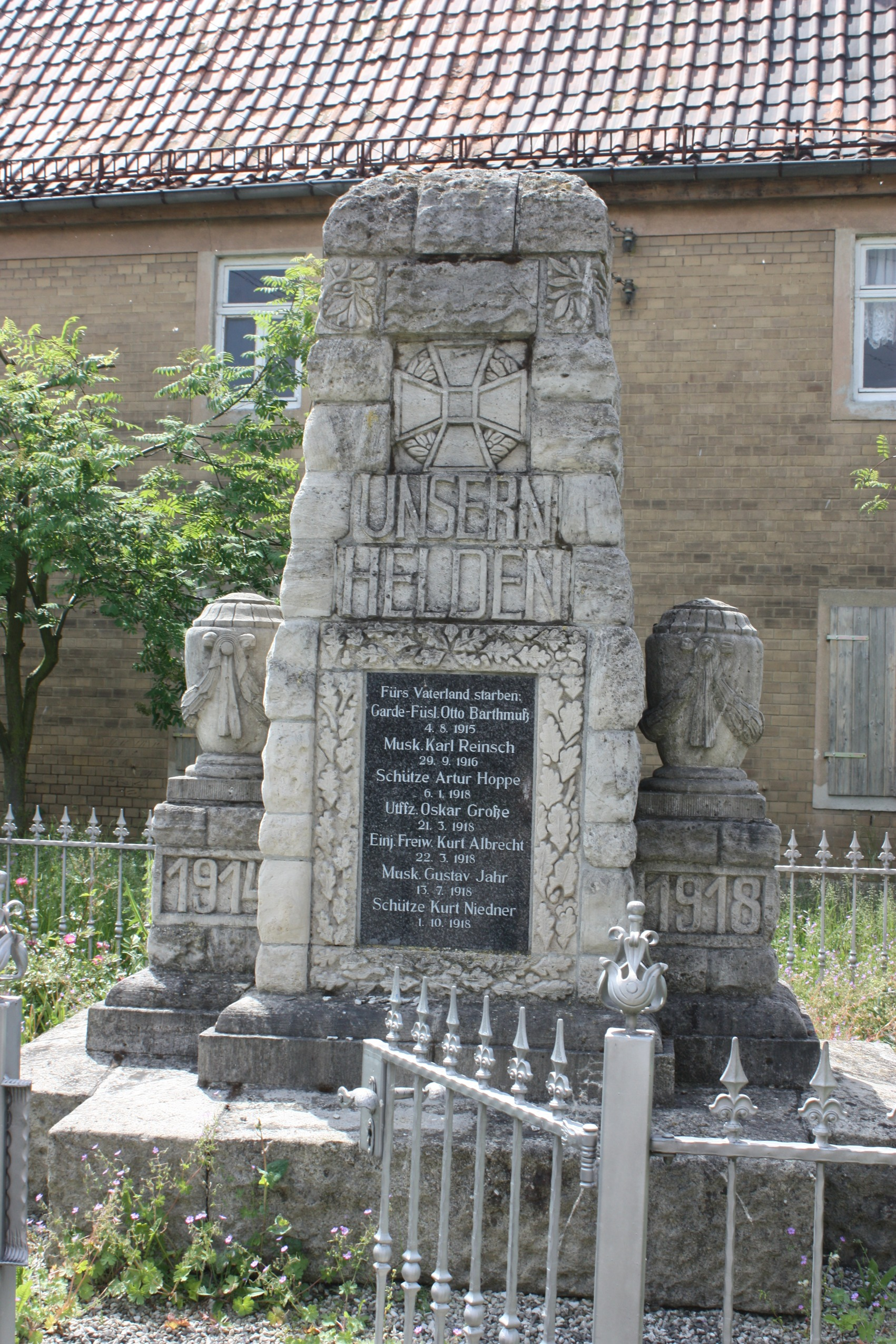 Michlitz (Lützen), war memorial